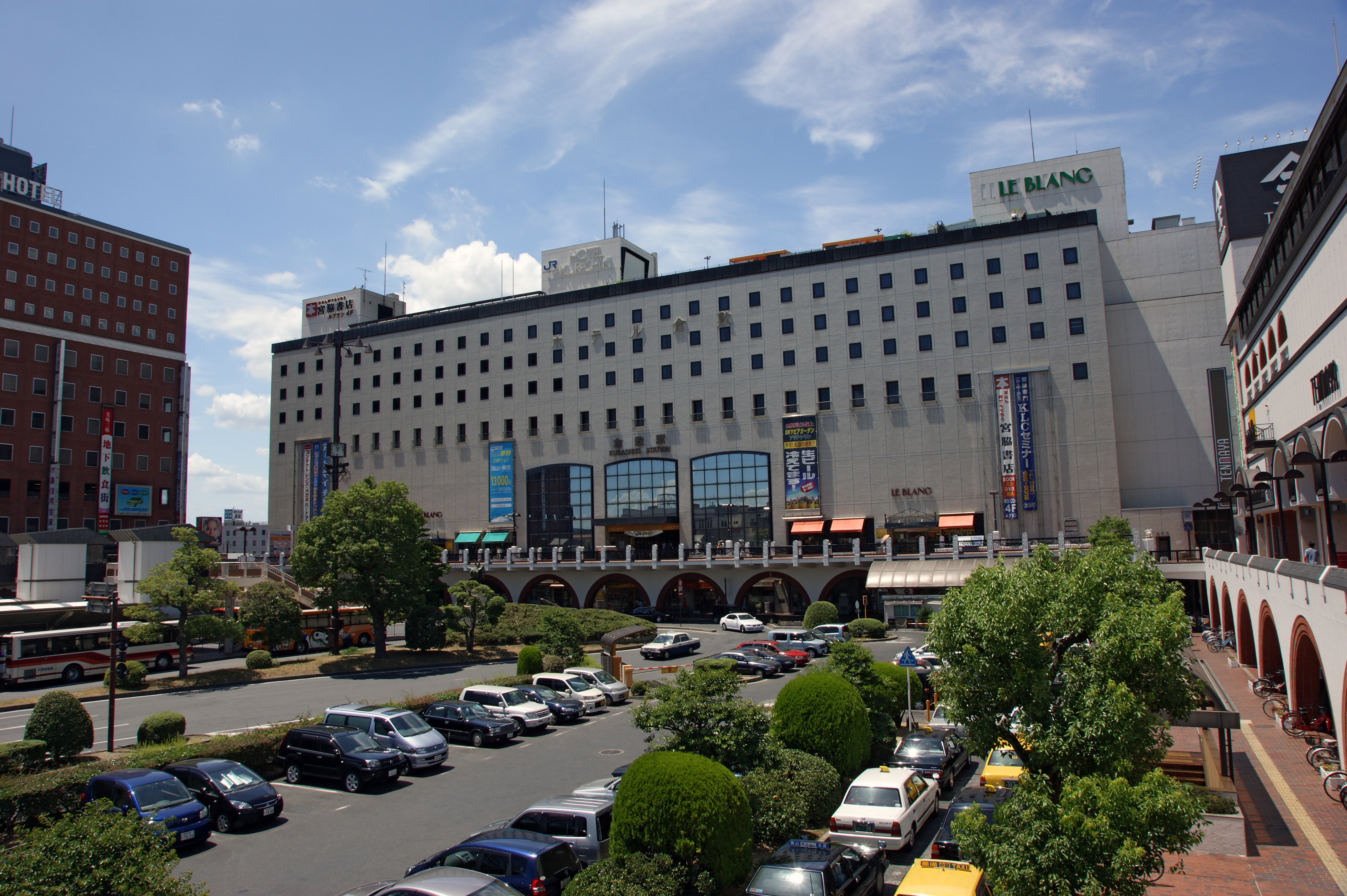 Kurashiki Station in Kurashiki, Okayama prefecture, Japan